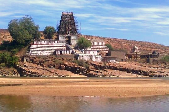 Ancient Pushpagiri Temmple at Vallur Mandal of Kadapa District.